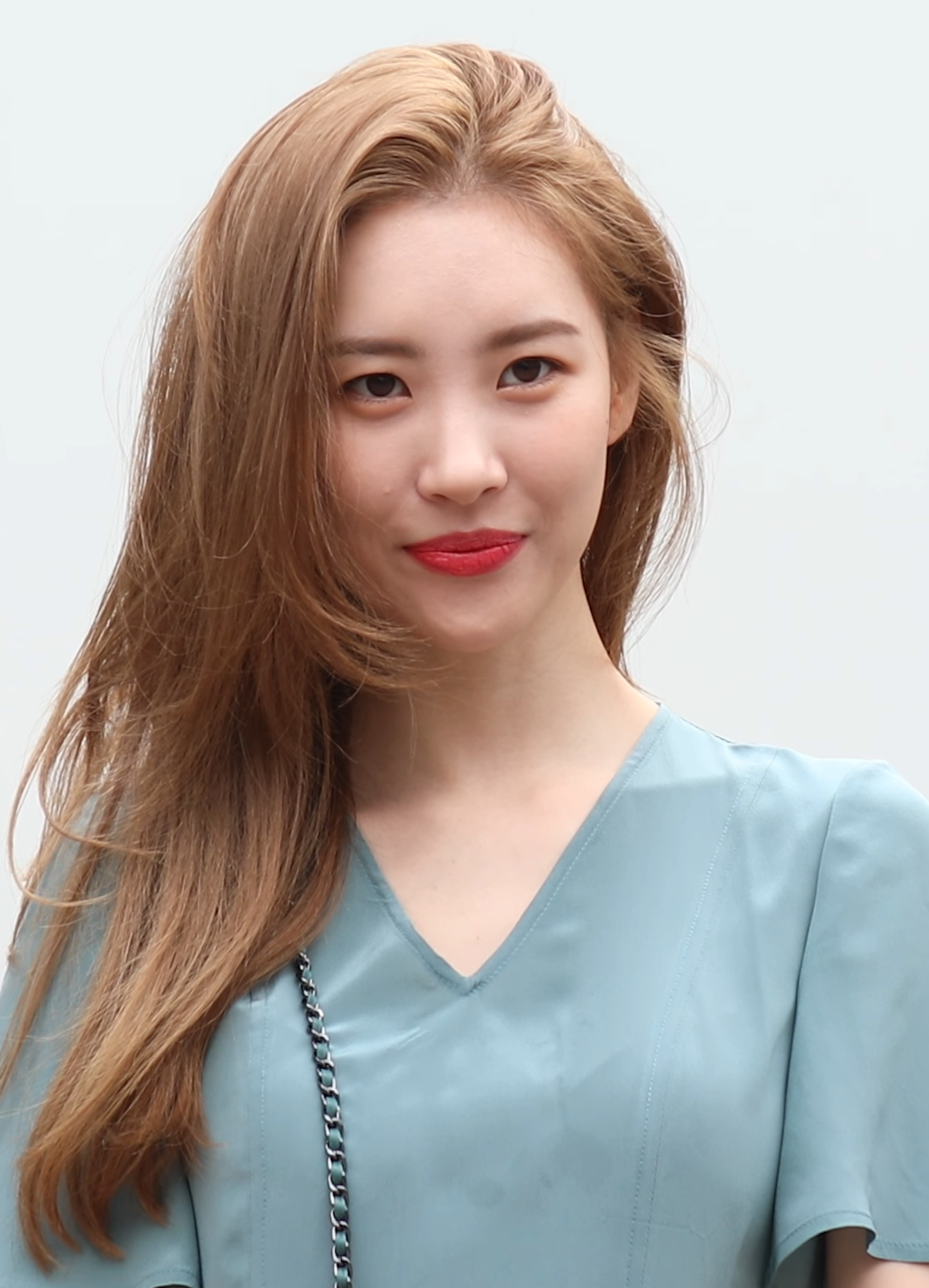 Lee Sun-mi going to a Music Bank recording in September 2018.